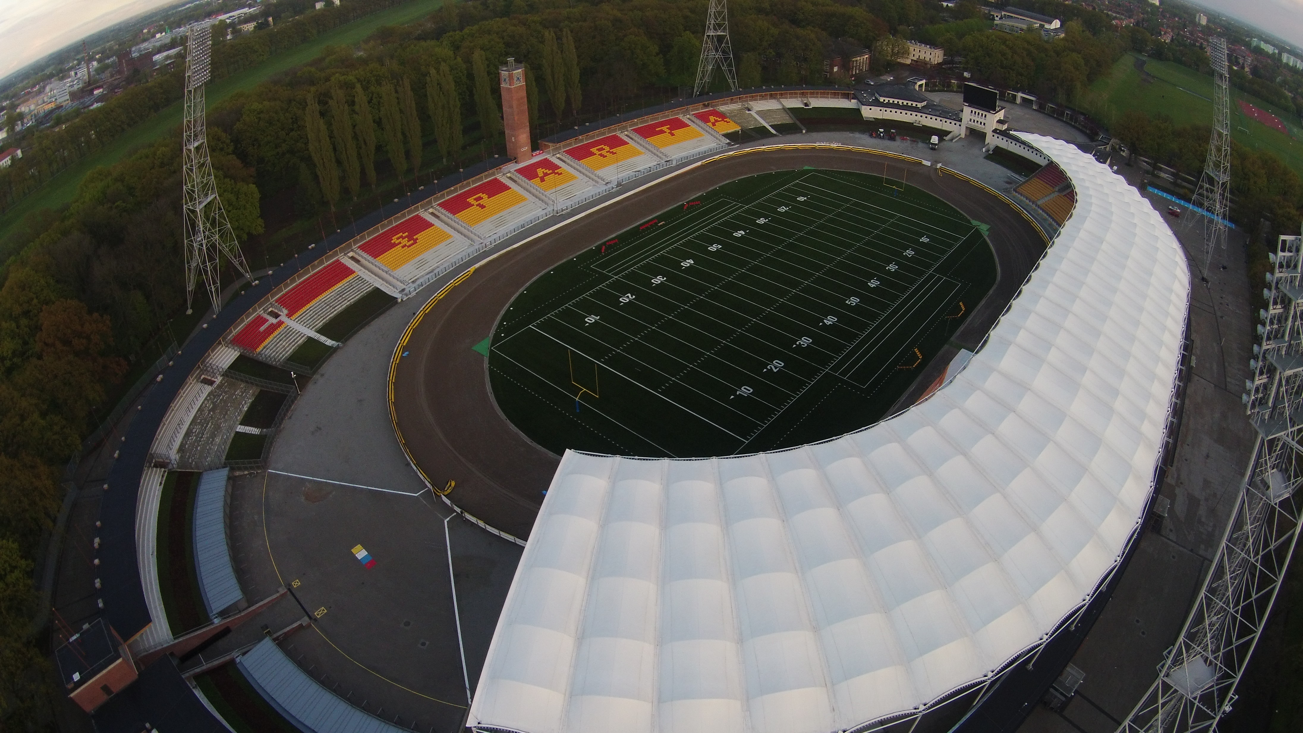 Olympic Stadium in Wrocław